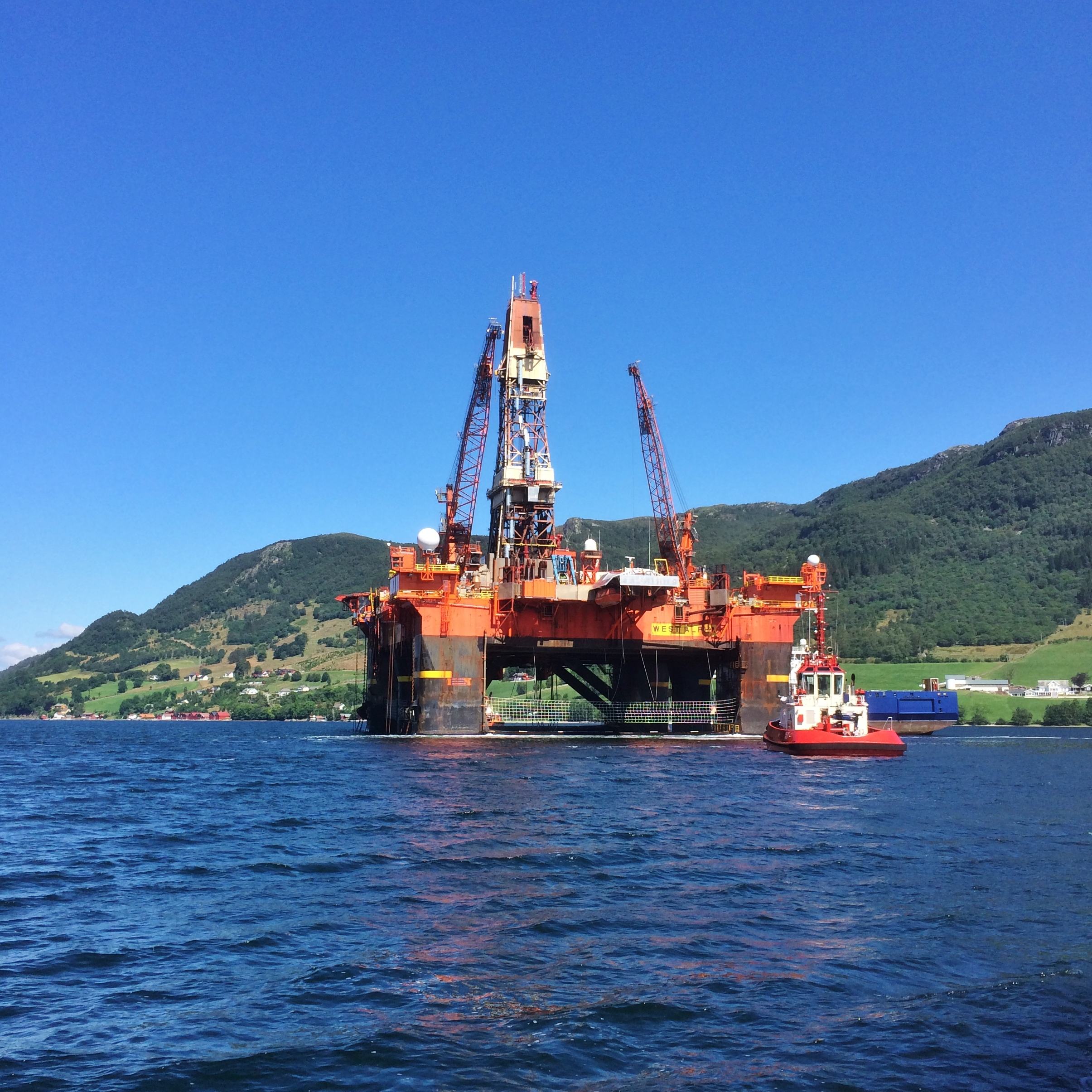 The semi-submersible rig West Alpha in Ølen, Norway